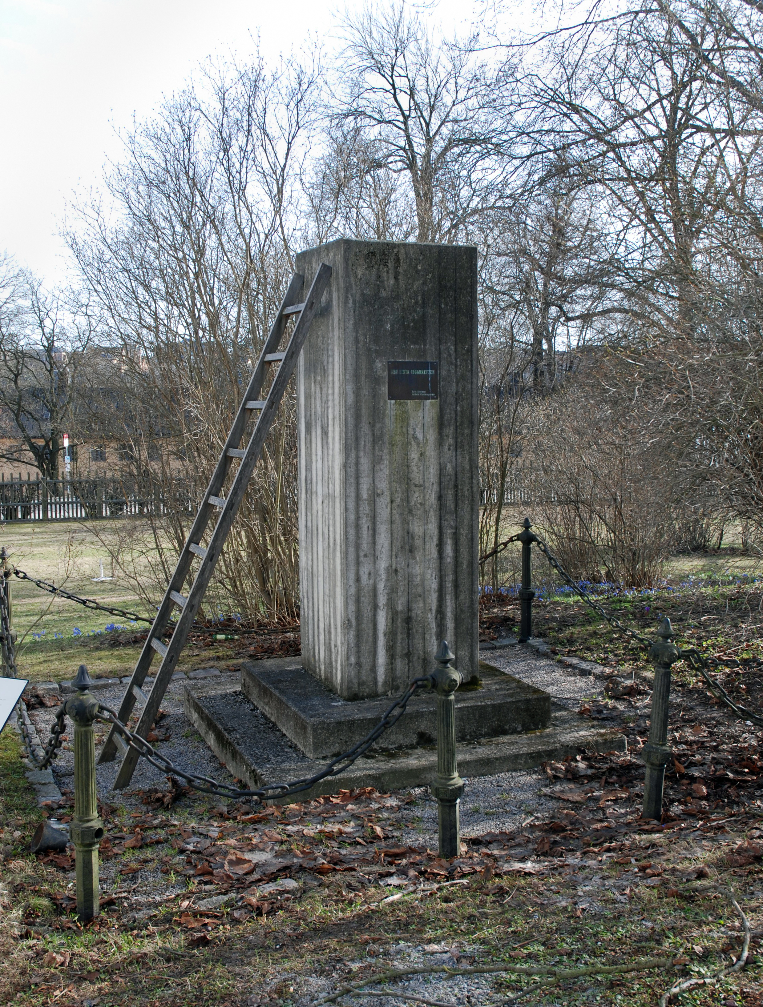 Erik Diertman´s Den sista cigaretten (Last cigarette), Skeppsholmen, Stockholm, Sweden